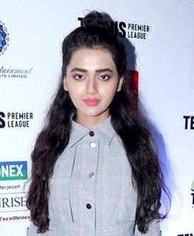 Tejasswi Prakash at the Tennis Premier League launch in 2018.